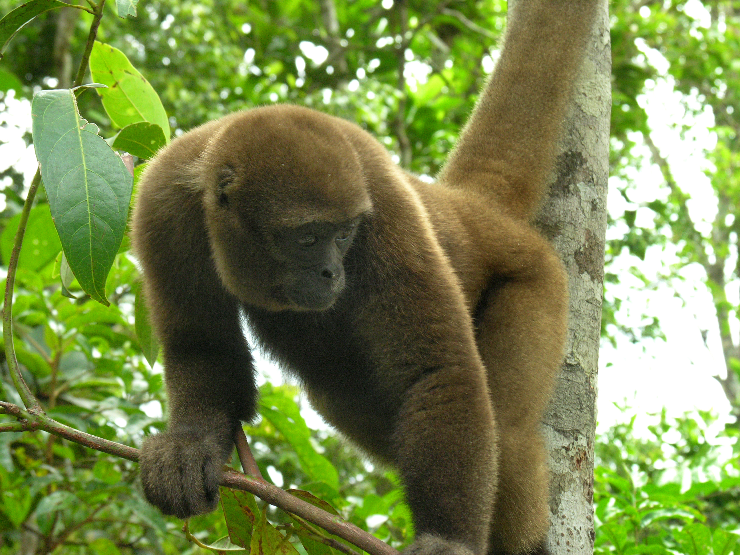 Photo of Brown Woolly Monkey (Lagothrix lagotricha) by Evgenia Kononova (Taruma River, Brazil)